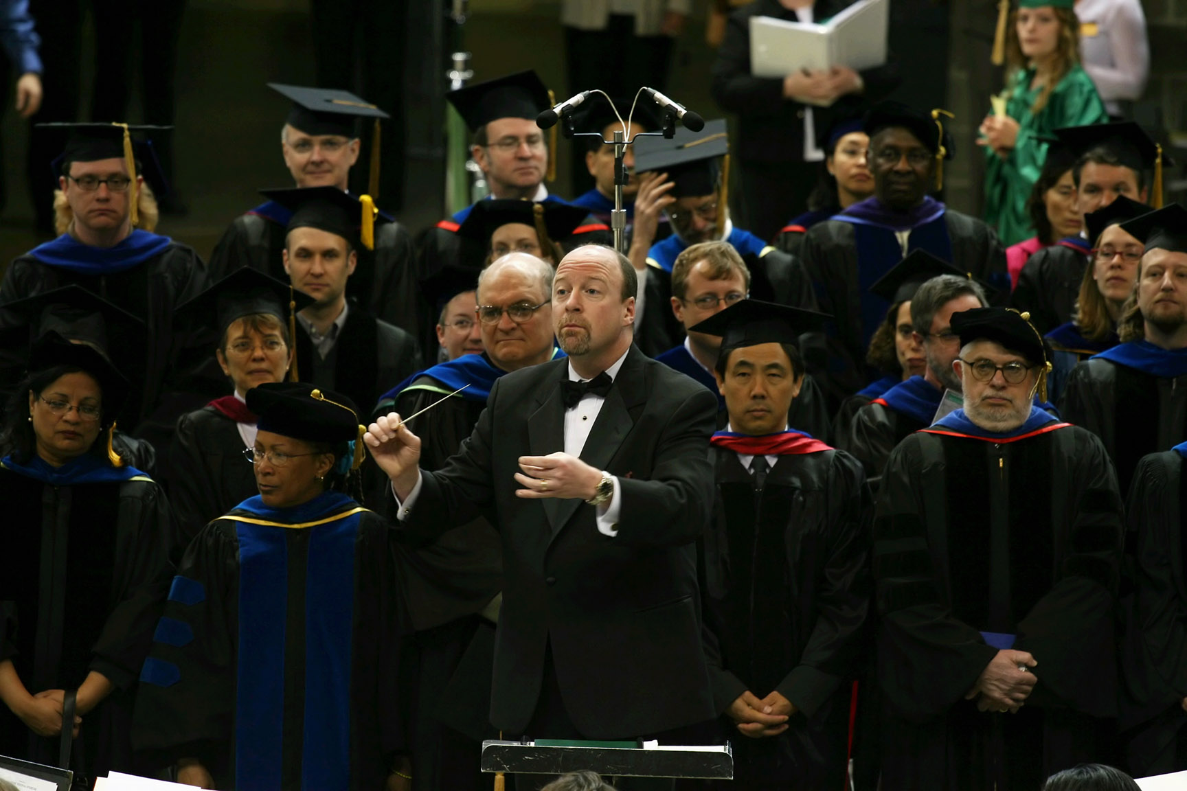 A photograph of Conductor John T. Madden leading the Michigan State University Wind Symphony with various MSU faculty members in the background. The photograph was taken by the submitter at the 2006 College of Social Science graduation ceremony held at the Breslin Center in East Lansing, MI on May 6th 2006.